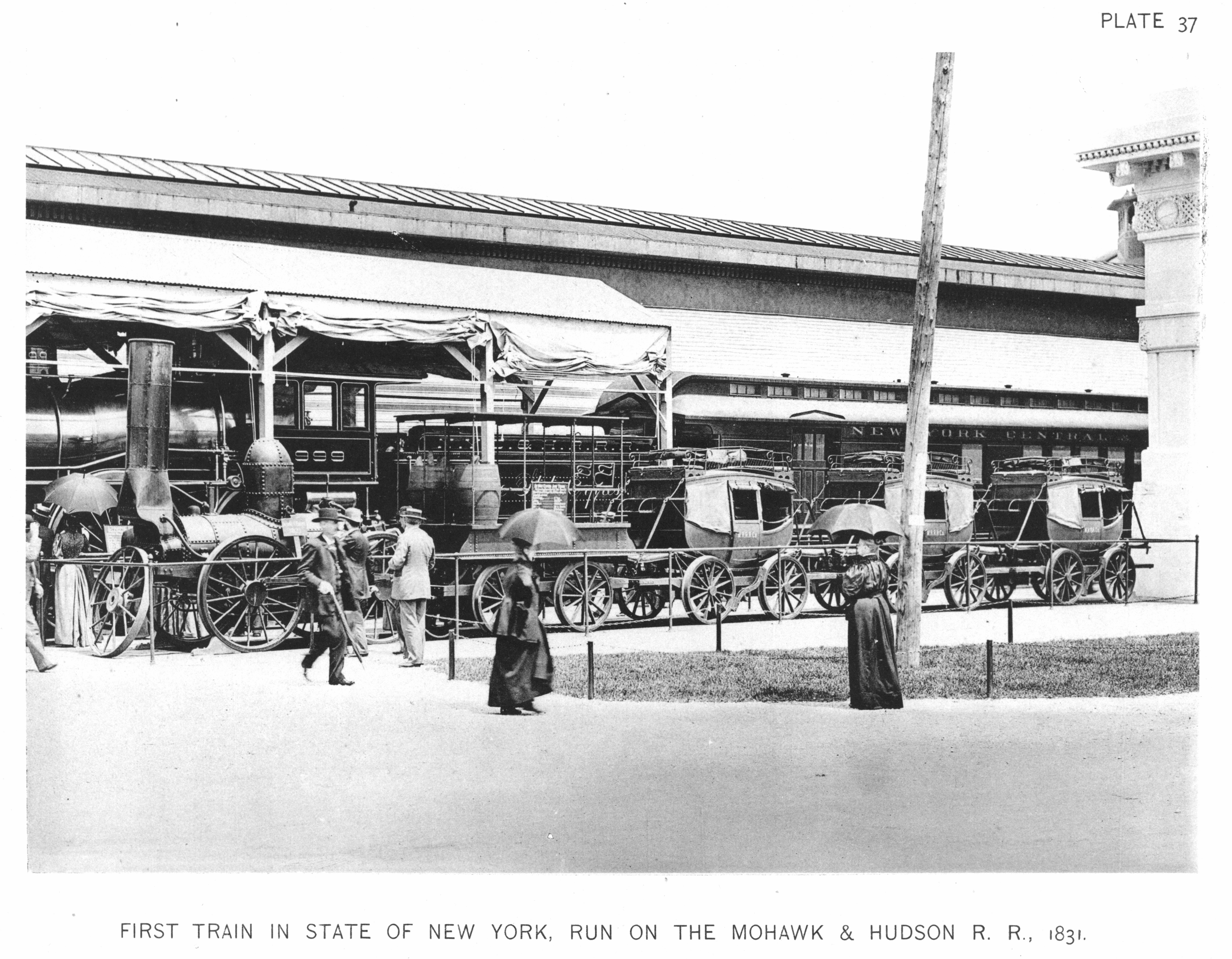 Official Views Of The World's Columbian Exposition: First Train In State Of New York, Run On The Mohawk & Hudson R. R., 1831